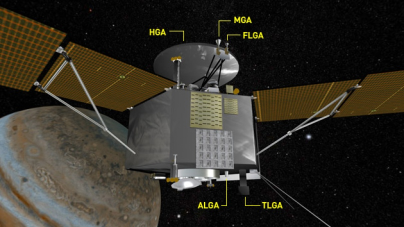 Five different antennae that comprise Juno's communication system